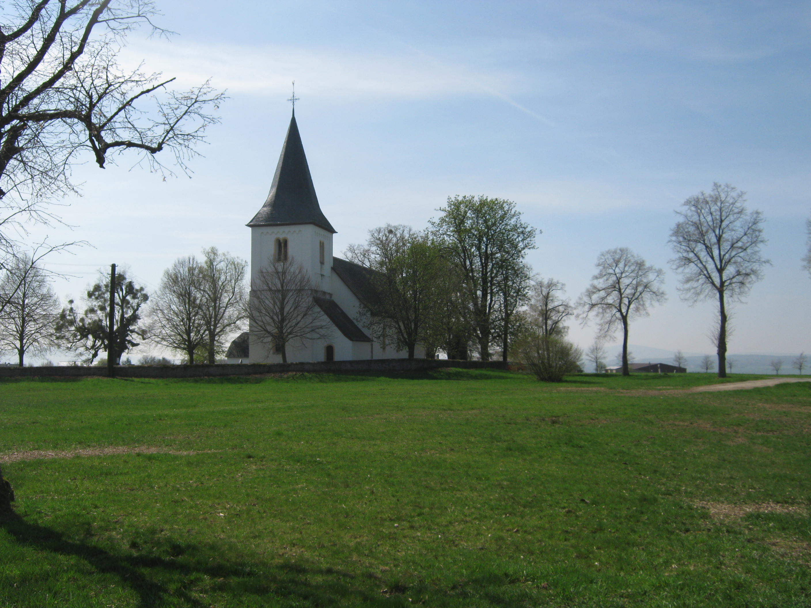 Nunkirche near Sargenroth, Hunsrück landscape, Germany